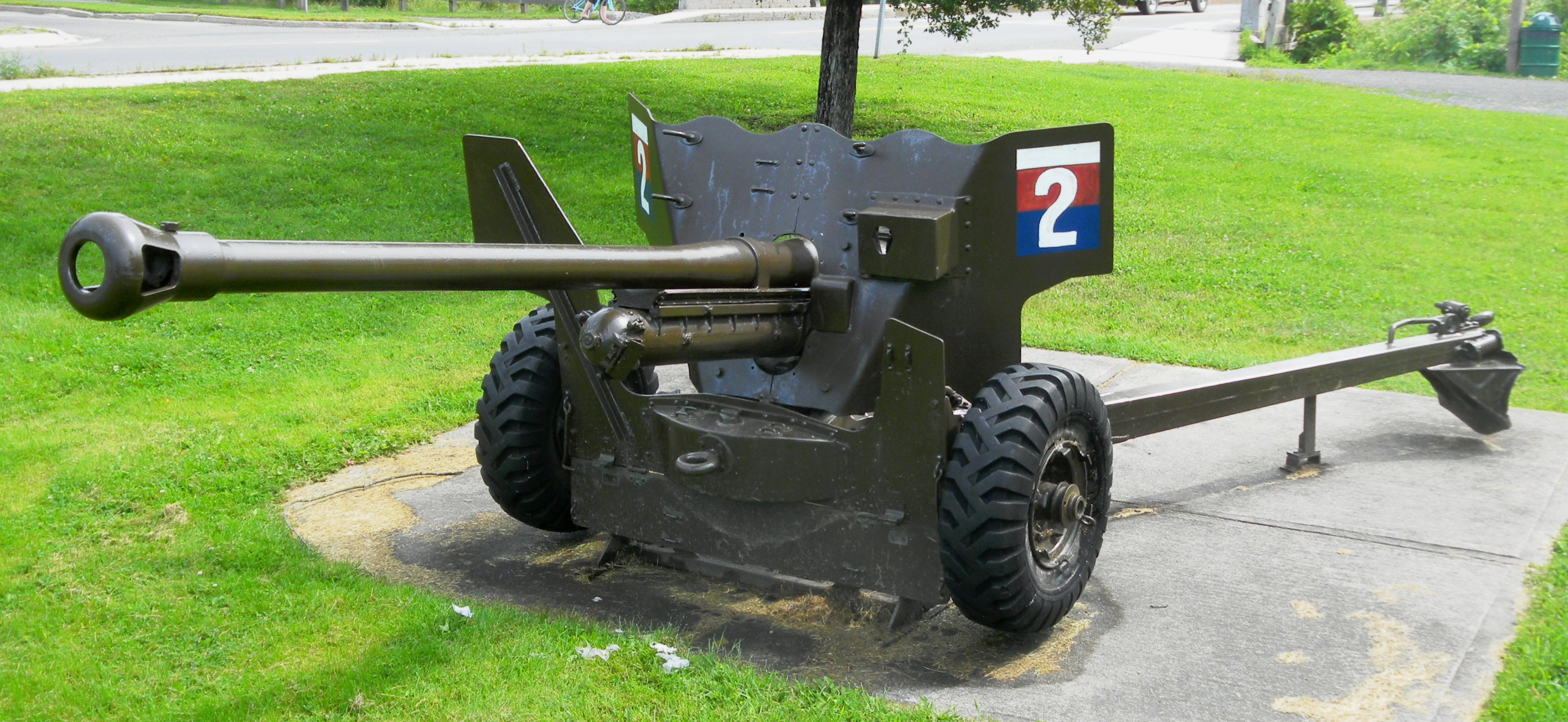 Ordnance QF 6-pounder 7-cwt Anti-Tank Gun, Marysville, New Brunswick. The Ordnance QF 6-pounder 7-cwt Anti-Tank Gun was a British 57-mm gun used from the middle of the Second World War, as well as the main armament for a number of armoured fighting vehicles. It replaced the 2-pounder Gun in the anti-tank role. Produced in Canada, the 6-pounder continued to be used for many years after the war.